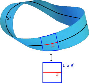 new version